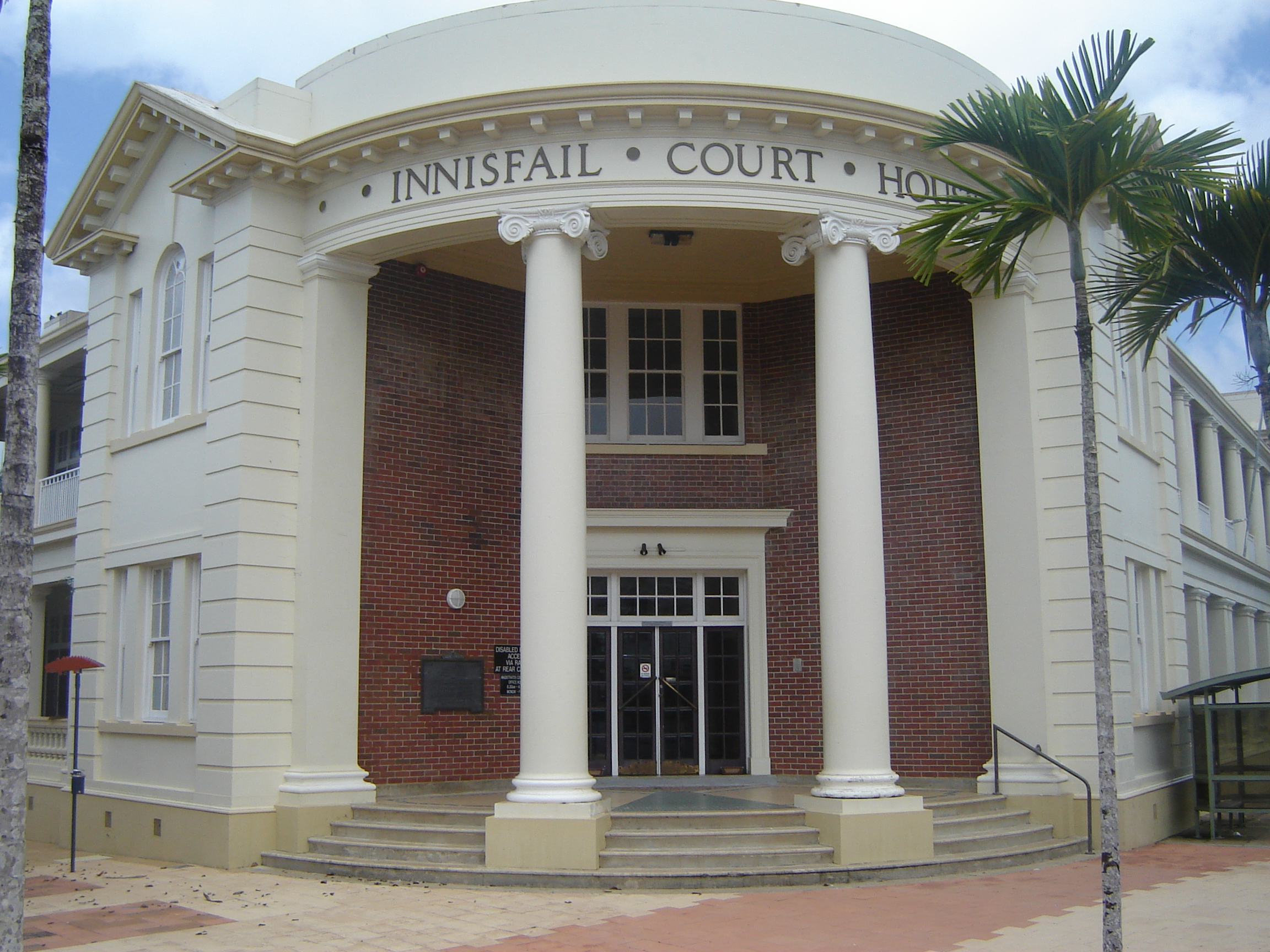 Innisfail Court House on Rankin Street. Taken by Frances76